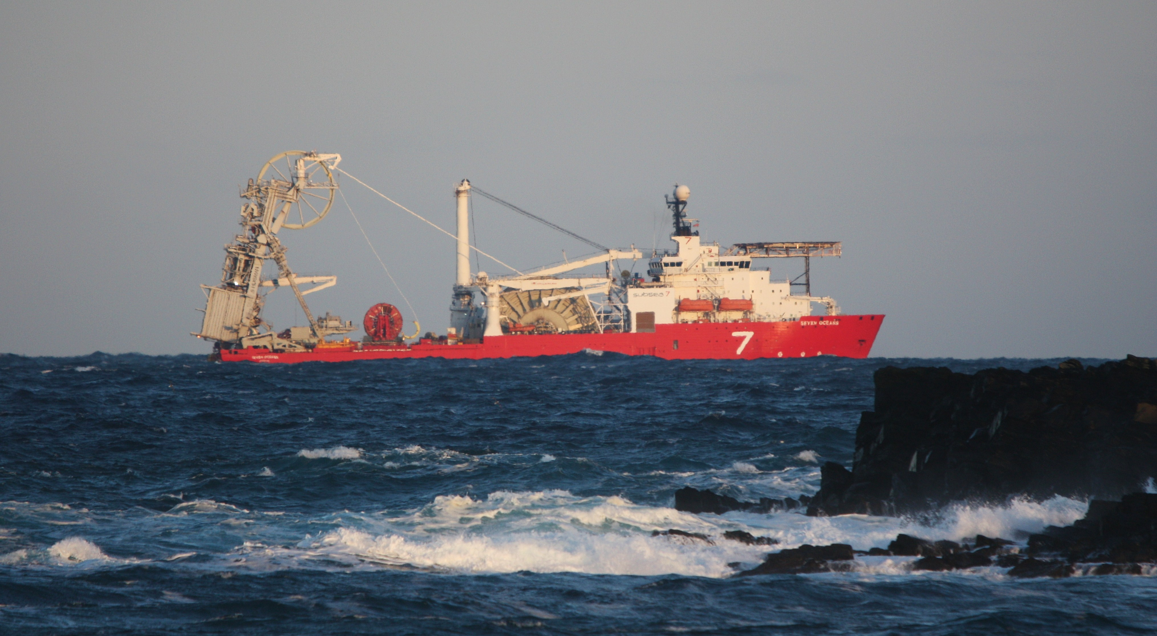 East of the Laaward